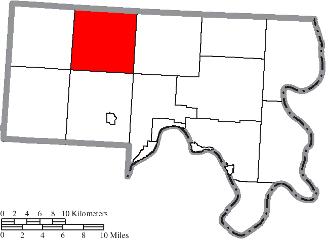 Map of the municipal and township boundaries of Meigs County, Ohio, United States, as of the 2000 census, with the location of Scipio Township highlighted. Township borders are shown only in unincorporated areas in order to differentiate incorporated and unincorporated areas more clearly.